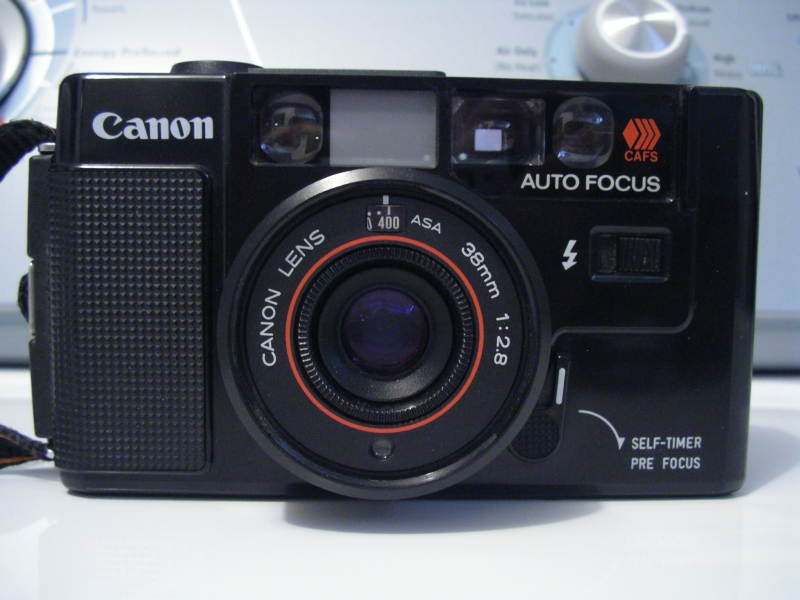 Canon AF35M compact camera